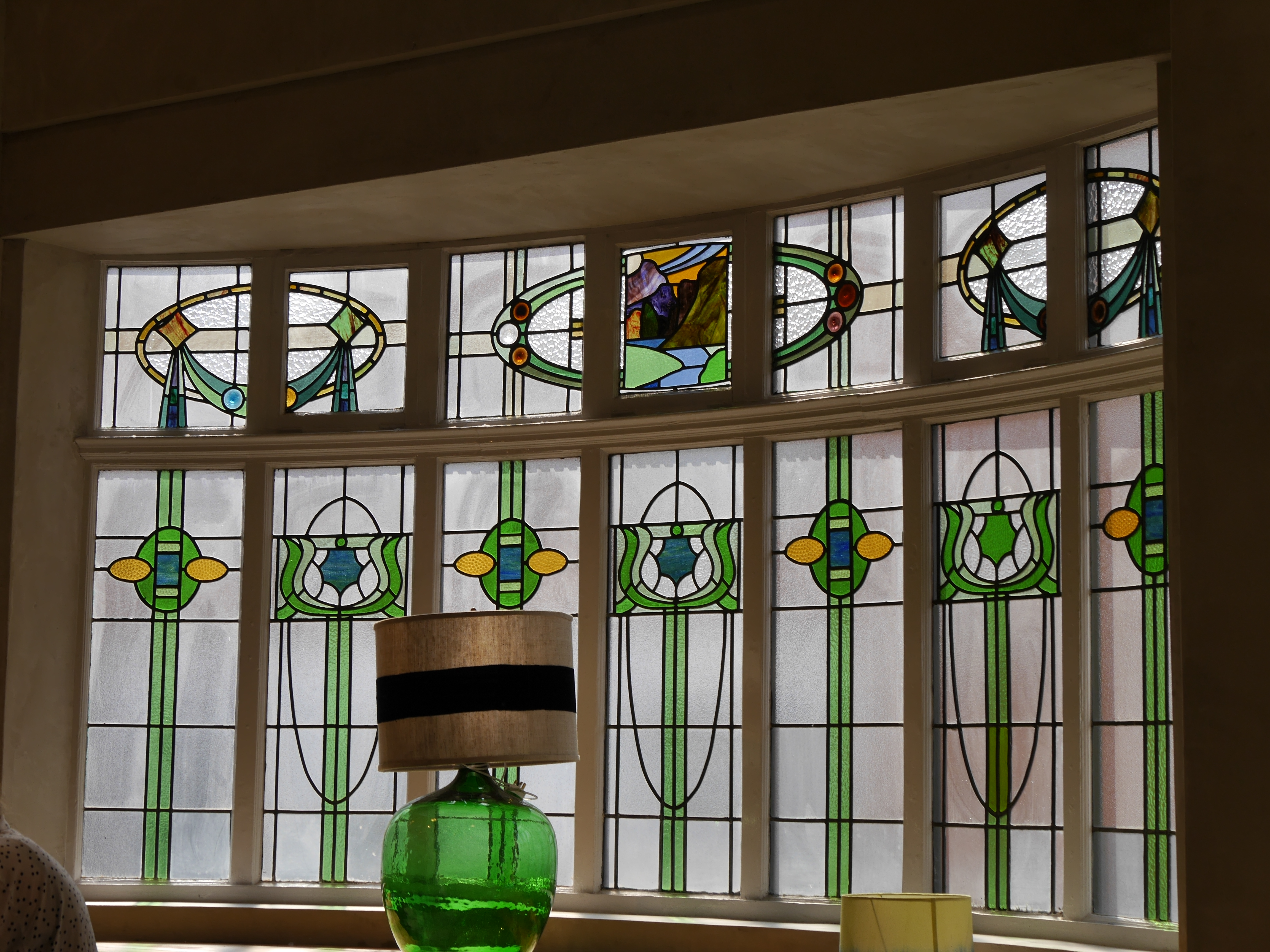 Temperance Billiard Hall, 131-141 King's Road, Chelsea, London SW3